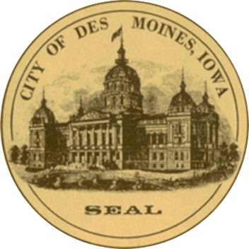 Seal of Des Moines, Iowa